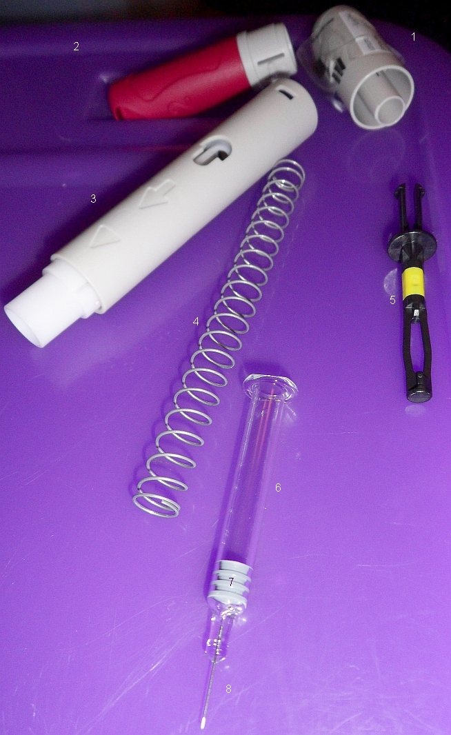 Components of a Adalimumab-Humira pen separated out and annotated for ease of identification. 1 = protective lower cap that covers the needle 2 = protective upper cap that shields the firing button 3 = main plastic outer chassis of the autoinjector pen housing. Note the window above the directional arrow marking. 4 = firing spring 5 = plunger - firing spring sits on top of collar. Yellow bar acts as indicator to patient. When plunger descends and is visible in the window of #3 the injection has completed. 6 = glass syringe vial that holds the drug to be administered. 7 = piston that's pushed down by the plunger. This is in direct contact with the drug. As the plunger is pushed down the piston pushes the drug through the needle, administering the medication. 8 = hypodermic needle.